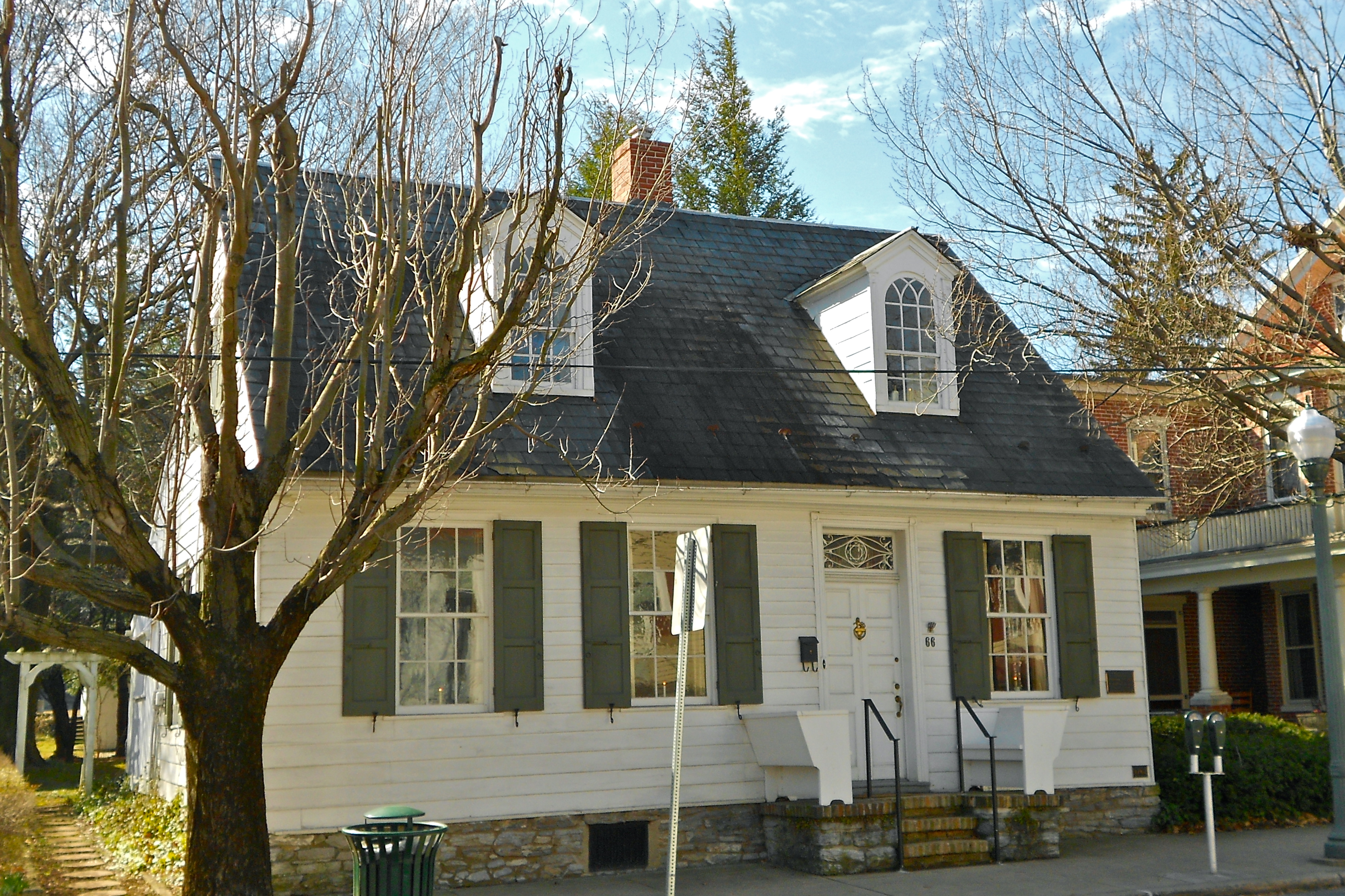 William Werner House on the NRHP since May 10, 1984. At 66 East Main Street, Lititz, Lancaster County, Pennsylvania. Listed separately by NRHP, but also in the Lititz Moravian Historic District.